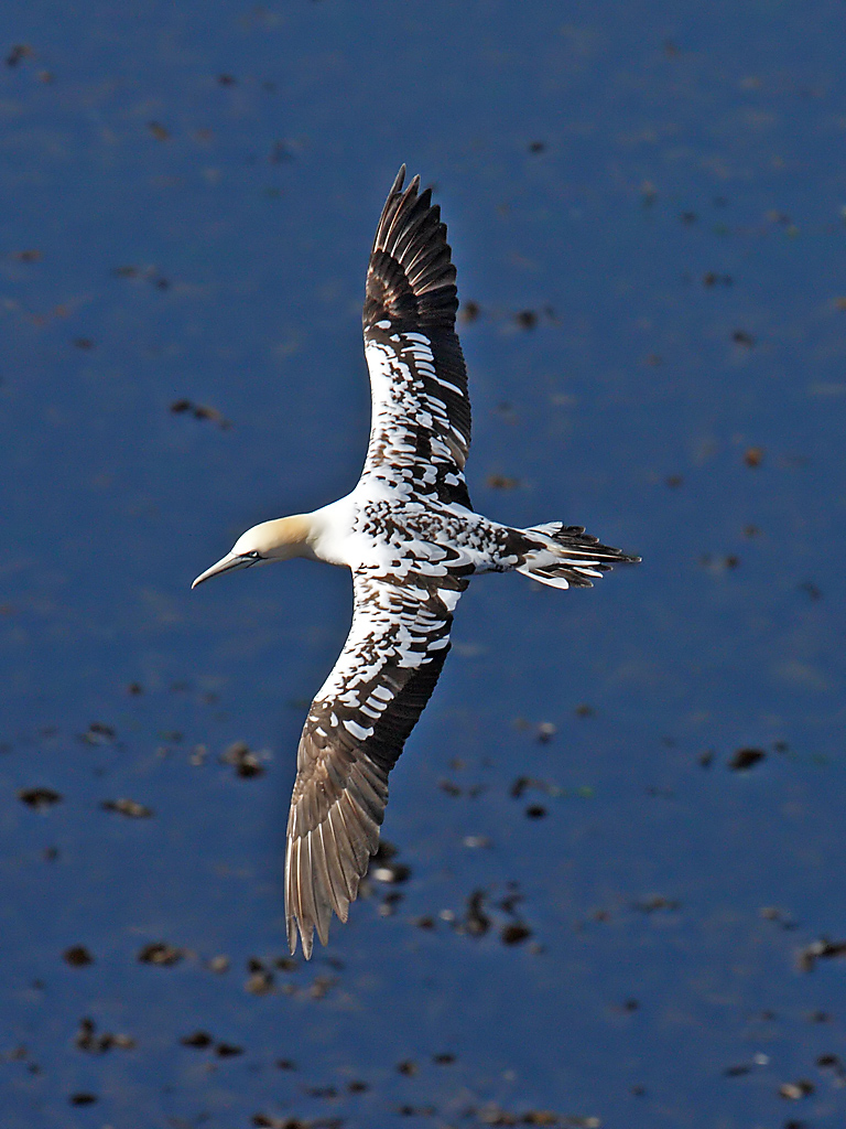 Northern Gannet